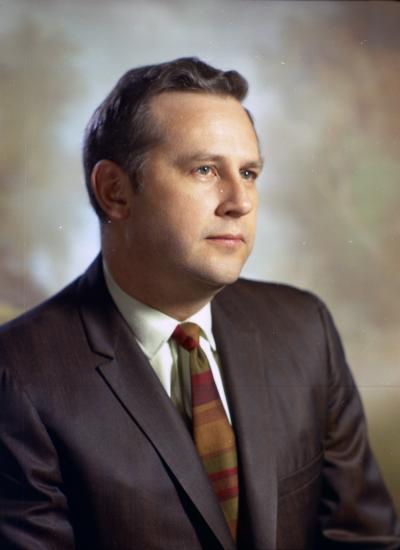 Washington State Sen Gordon Walgren